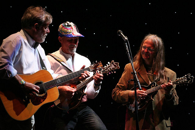 Fairport Convention ; Simon Nicol, Dave Pegg & Chris Leslie. Cropredy Festival, Oxfordshire, 12 August 2006